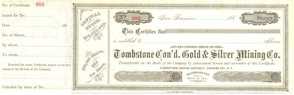 Stock certificate of the Consolidated Tombstone Gold and Silver Mining Company, successor to the Tombstone Mining and Milling Company founded by Ed Schieffelin, Al Schieffelin, and Richard Gird.